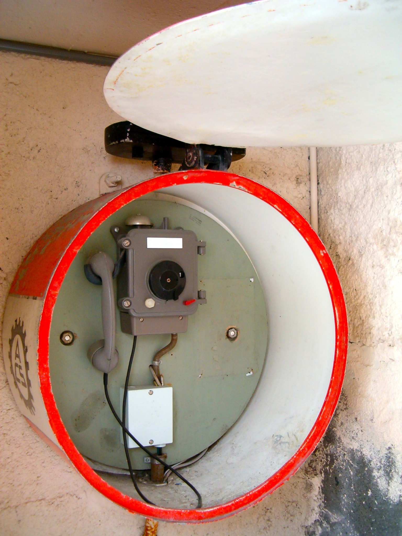 Old SOS road-phone in Switzerland